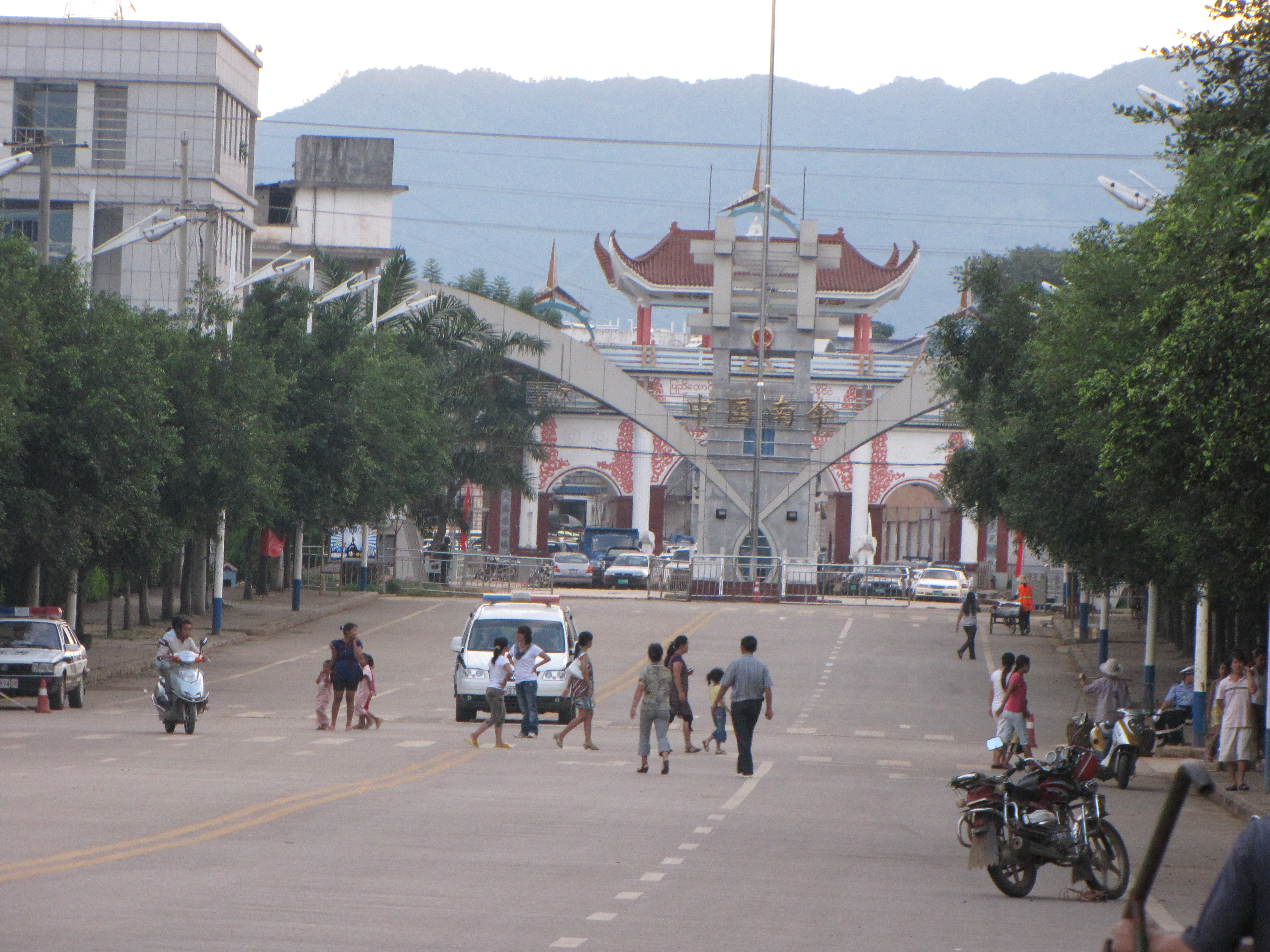 Nansan, Yunnan at the border gate. Many refugee from Myanmar had come across. Many cars were stopped at the border, waiting to join the many hundreds of cars from Kokang, many already parked opposite the refugee camp.